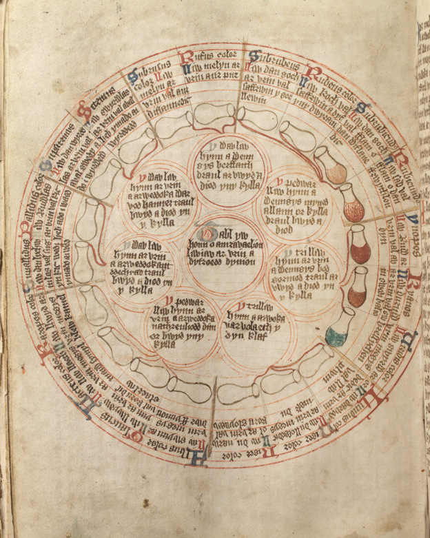 This part of the manuscript contains an assortment of texts about astrology and medicine. This combination was common in manuscripts all over Europe by the fifteenth century. To people in the Middle Ages there was close link between the time of year, the moon's seasons and other astrological factors and health and medical treatment, as they would affect the body's humours.